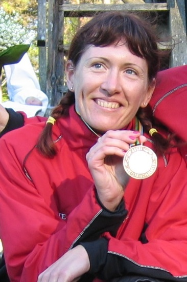 Viivi-Anne Soots